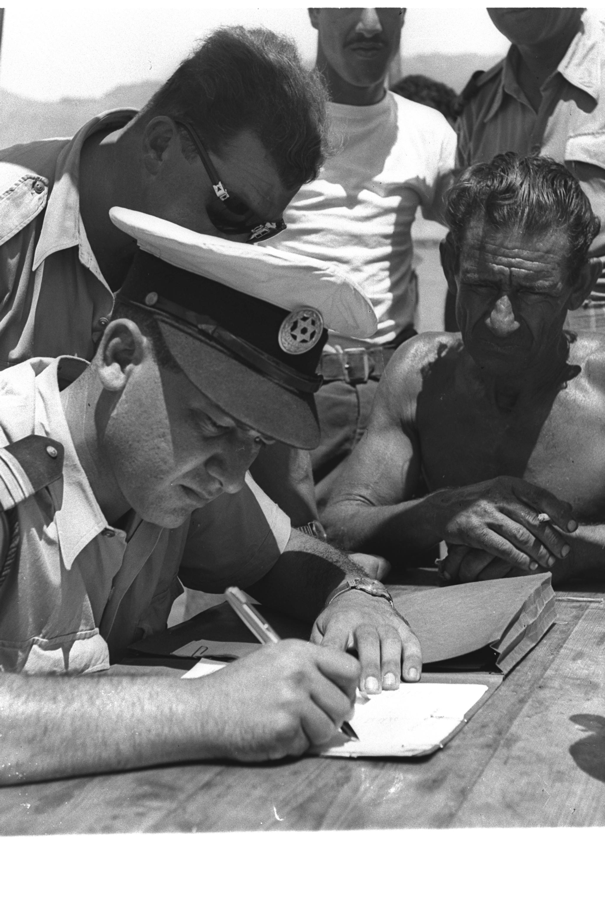 GABRIEL OREN, TEL AVIV CUSTOMS OFFICER, FLEW TO EILAT TO COMPLETE CUSTOMS CLEARANCE FOR THE "LUCE" THE FIRSTSHIP TO ARRIVE AT PORT OF EILAT.